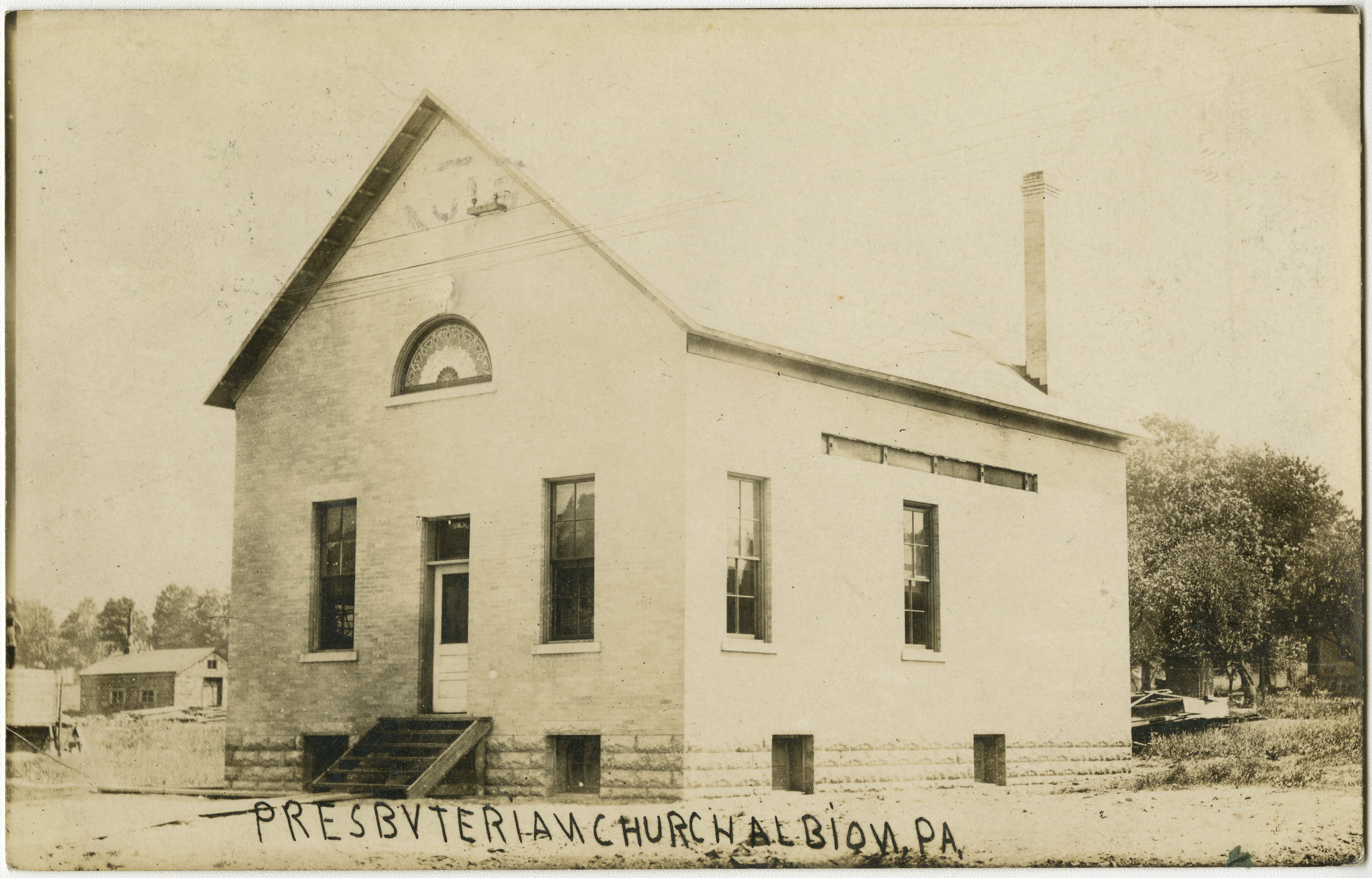 Presbyterian church in Albion, Pennsylvania from a pre-1923 postcard From RG 428, Postcard Collection, Presbyterian Historical Society, Philadelphia, Pennsylvania.